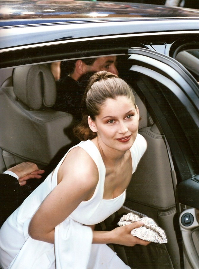 Laetitia Casta, French supermodel